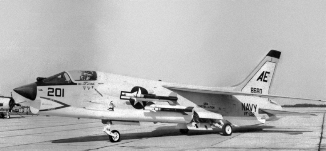 A U.S. Navy Vought F8U-2N (F-8D) Crusader (BuNo 148680) from Fighter Squadron VF-132 Peg Leg Petes. VF-132 was assigned to Carrier Air Group 13 (CVG-13). Both were established on 21 August 1961 and deployed aboard the aircraft carrier USS Constellation (CVA-64) for her shakedown cruise in the Atlantic Ocean from 3 March to 6 May 1962. Then, on 1 October 1962, CVG-13 (and with it VF-132) were disestablished again. The F-8D 148680 was later converted to an F-8H and flew with VF-51 from the USS Bon Homme Richard (CVA-31) in 1968. During that deployment 148680 suffered anengine explosion over Gulf of Tonkin on 10 September 1968 and was lost. The pilot ejected and was rescued.